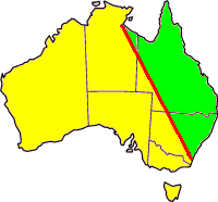 A render of the fictional "Barassi Line" suggested by professor Ian Turner. The red line divides the regions where Australian rules football (in yellow) and rugby football (in green) are the most popular football codes.